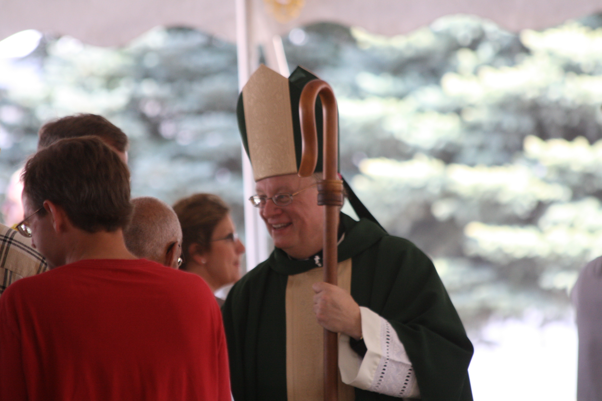 Roman Catholic bishop David Ricken greeting people at Lifest 2012.